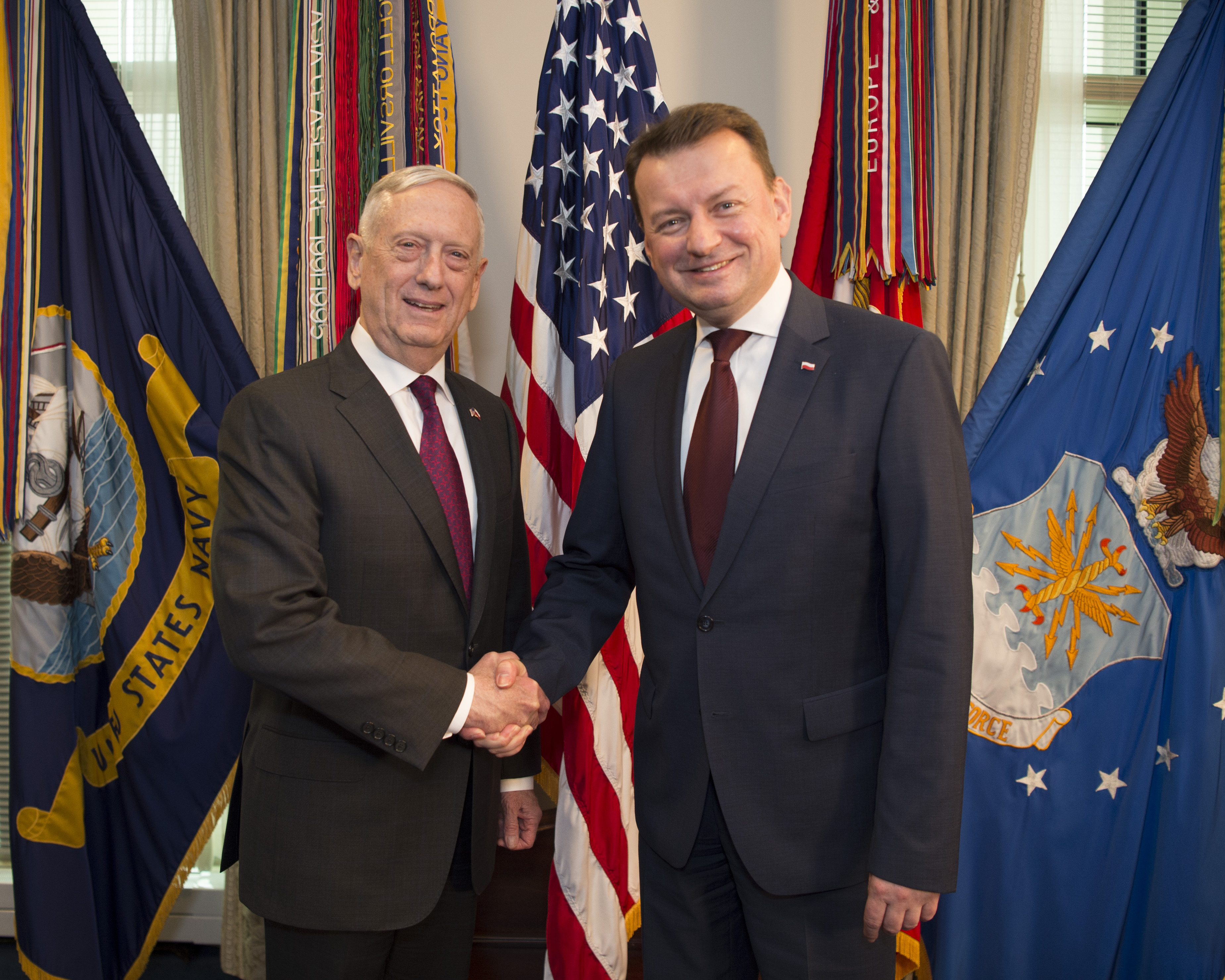 Defense Secretary James N. Mattis meets with Polish Defense Minister Mariusz Blaszczak at the Pentagon in Washington, D.C., April 27, 2018. (DoD photo by Navy Mass Communication Specialist 1st Class Kathryn E. Holm)